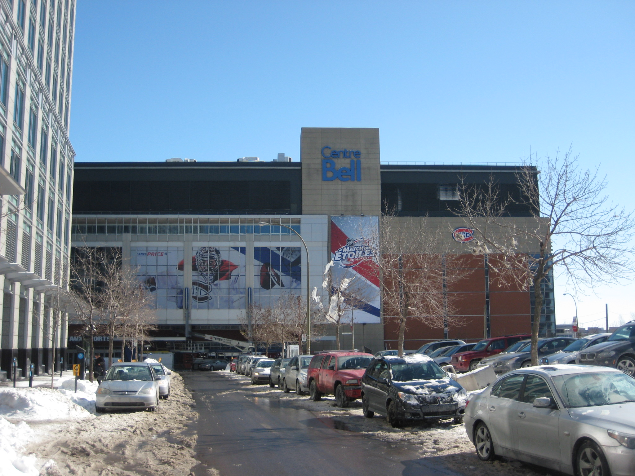 Outside of the Bell Centre (Montréal, Québec), home of the Montréal Canadiens.